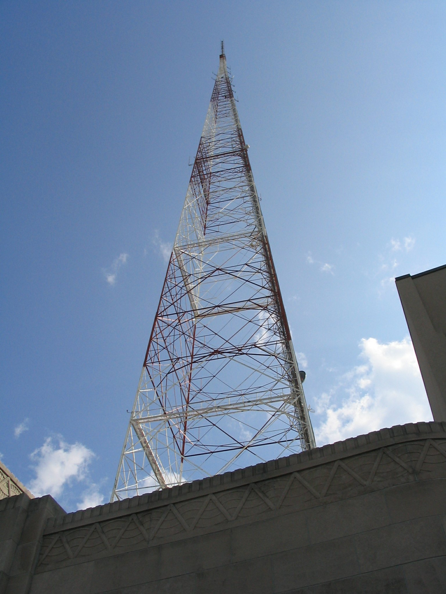 The 843 ft tall television tower (1049 feet height above sea-level) built in 1953 for WTVR, in Richmond, Virginia.